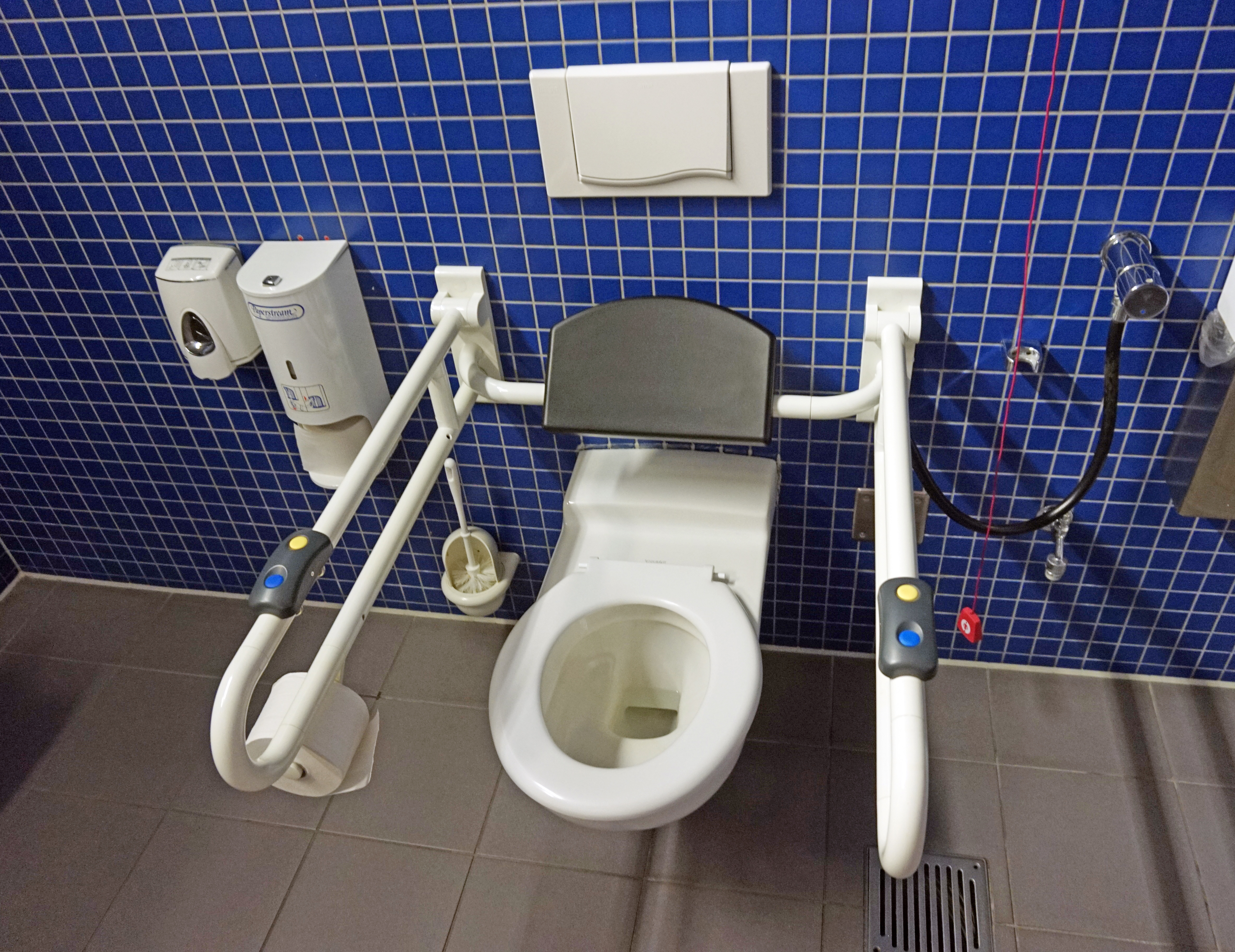 Handicap toilet in Munich airport.This photograph was taken with a Sony ILCE-5000